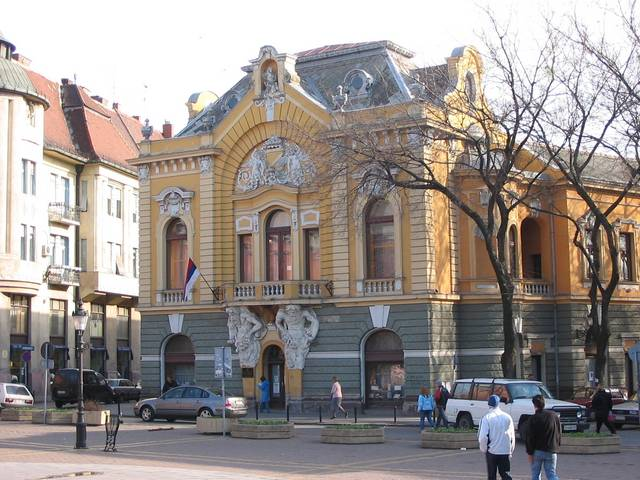 Subotica, city library (Gradska biblioteka), Ferenc Raichle, 1897